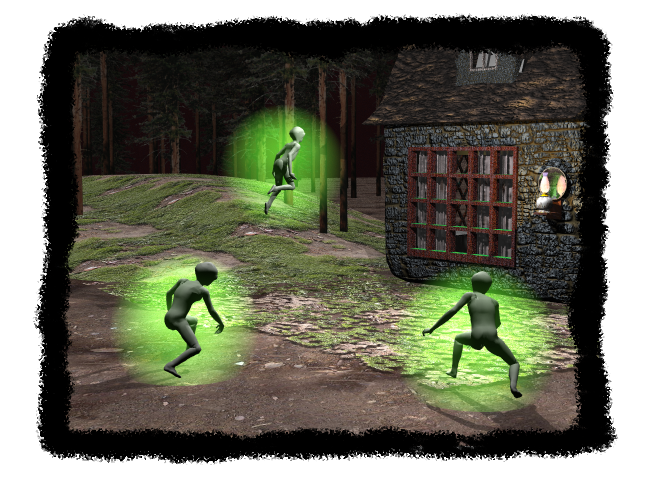 own creation